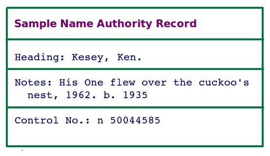 In library science, an authority record shows a chosen preferred unique title or heading. In this case, it is "Kesey, Ken"